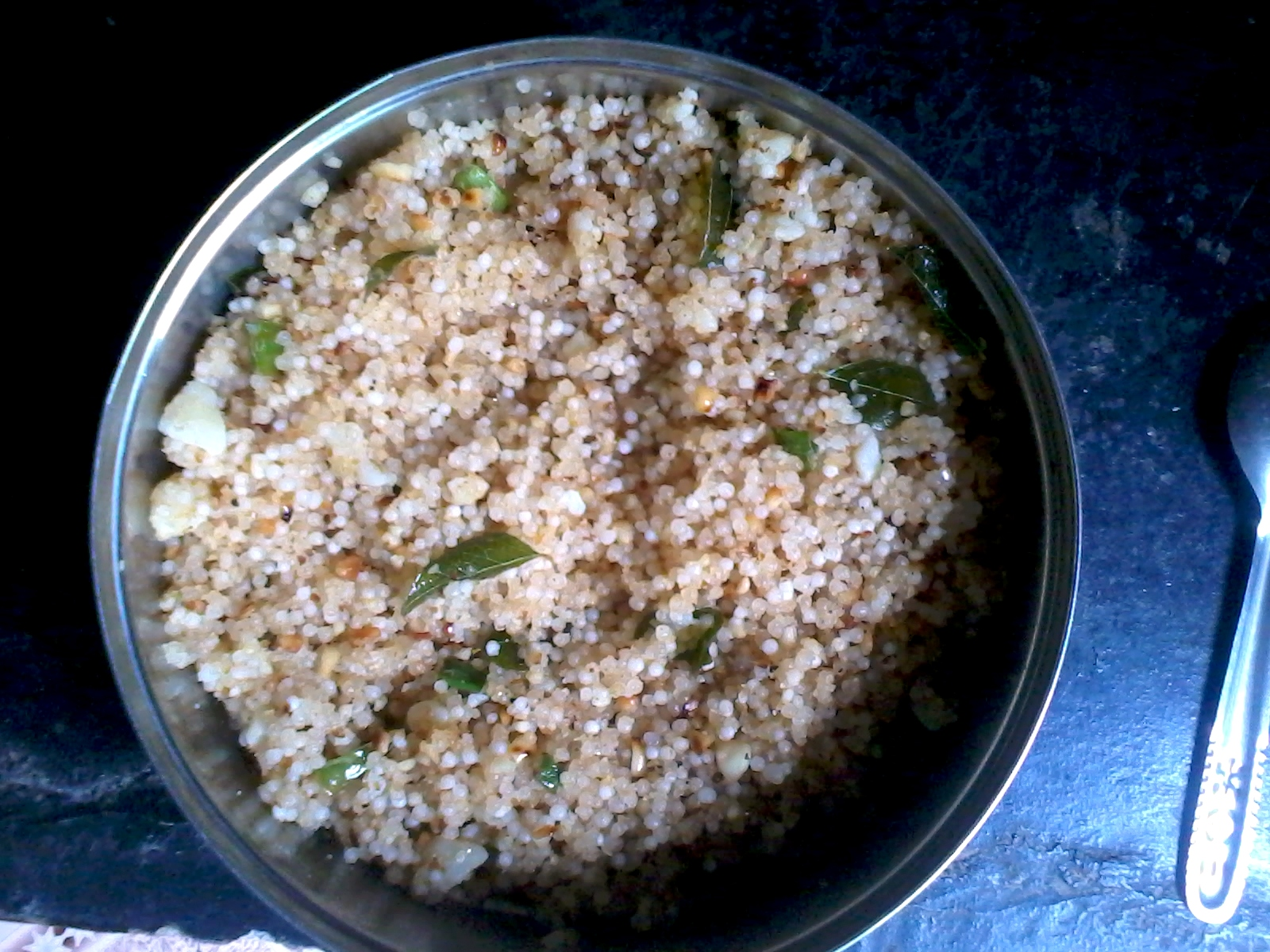 Maharashtrian Sabudana Khichdi